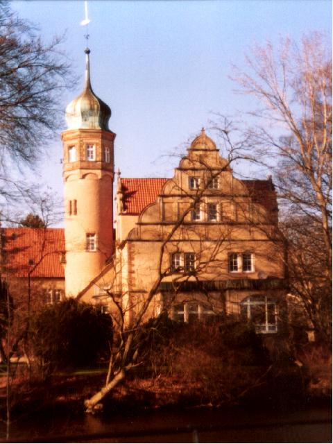 Ulenburg Castle in town of Löhne, District of Herford, North Rhine-Westphalia, Germany.